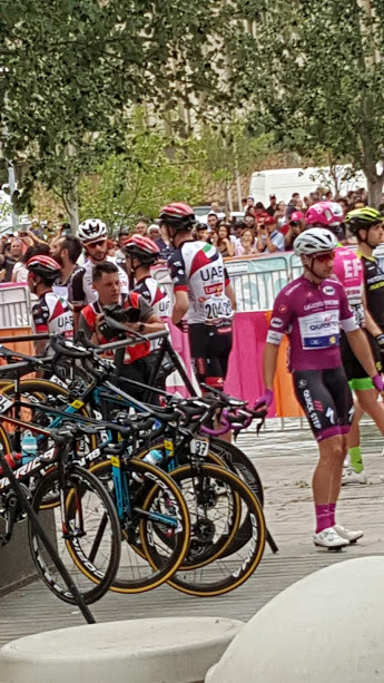 Elia Viviani before stage 3, Giro 2018, Beer Sheva